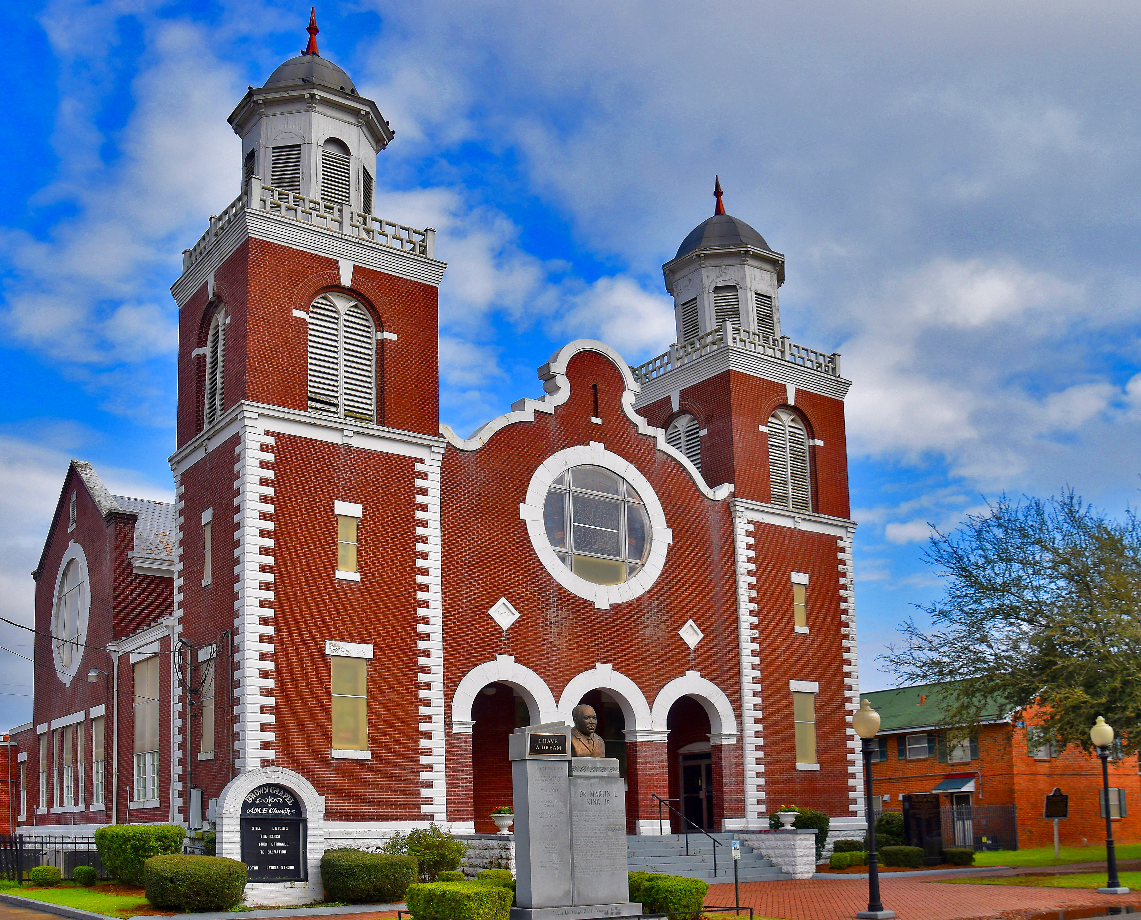 Brown Chapel African Methodist Episcopal (A.M.E.) Church is located in Selma (AL). This church at this site was the starting point for the Selma to Montgomery marches in 1965 and, as the meeting place and offices of the Southern Christian Leadership Conference (SCLC) during the Selma Movement. The church thus played a major role in the events that led to the adoption of the Voting Rights Act of 1965. The nation's reaction to Selma's "Bloody Sunday" march is widely credited with making the passage of the Voting Rights Act politically viable in the U. S. Congress. The church was added to the Alabama Register of Landmarks and Heritage in June 1976 and later declared a National Historic Landmark in February 1982. DSC_5417